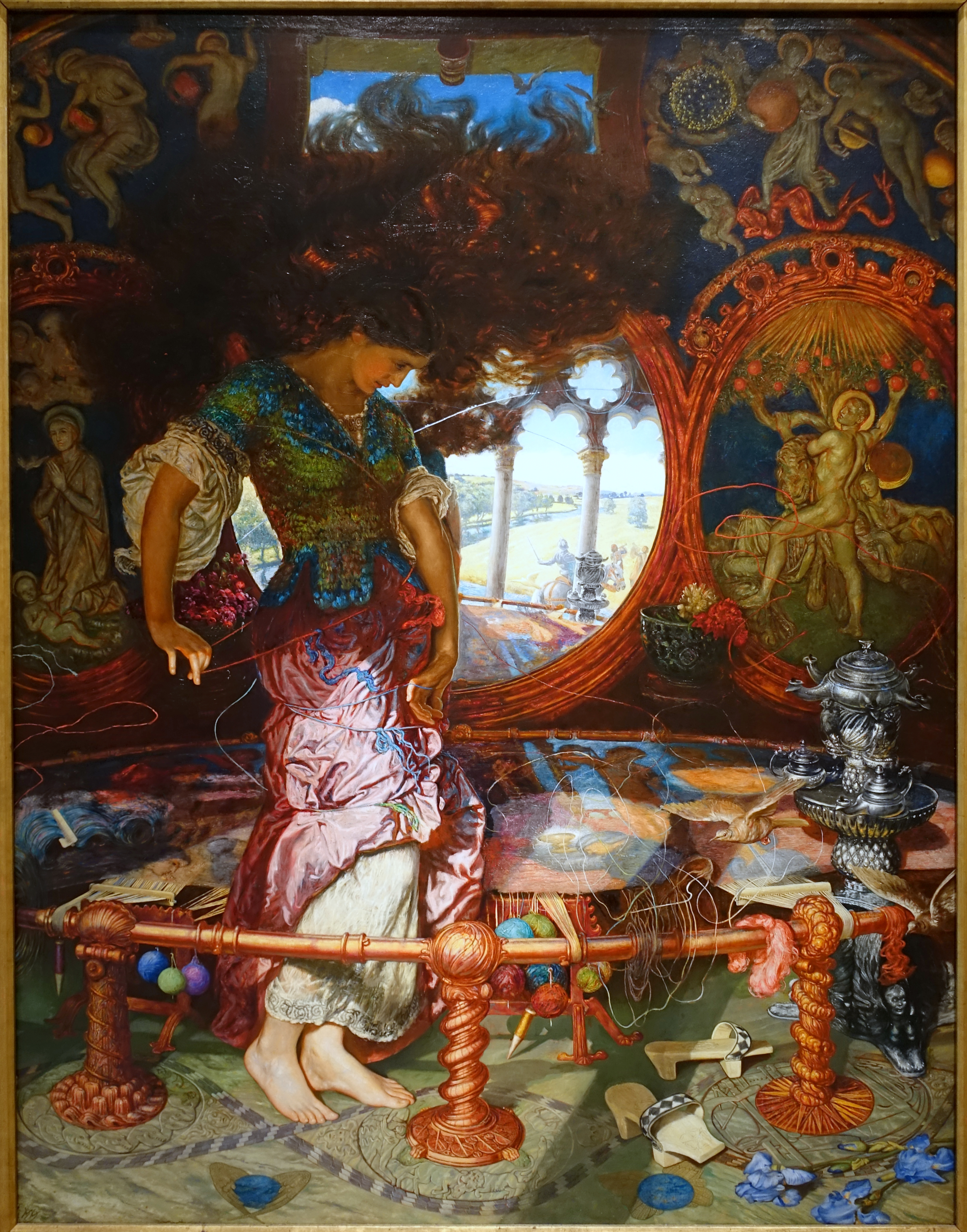 Exhibit in the Wadsworth Atheneum - Hartford, Connecticut, USA. This work is old enough so that it is in the public domain.